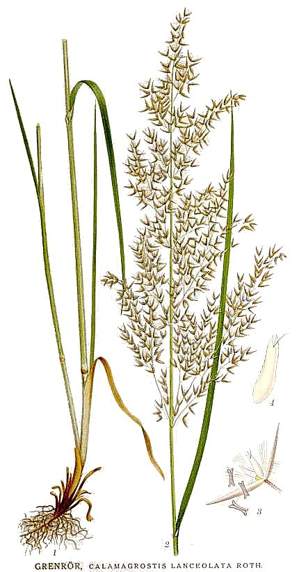 Calamagrostis canescens (Weber) Roth, syn. Calamagrostis lanceolata Roth Original Description "Grenrör", Calamagrostis lanceolata Roth.